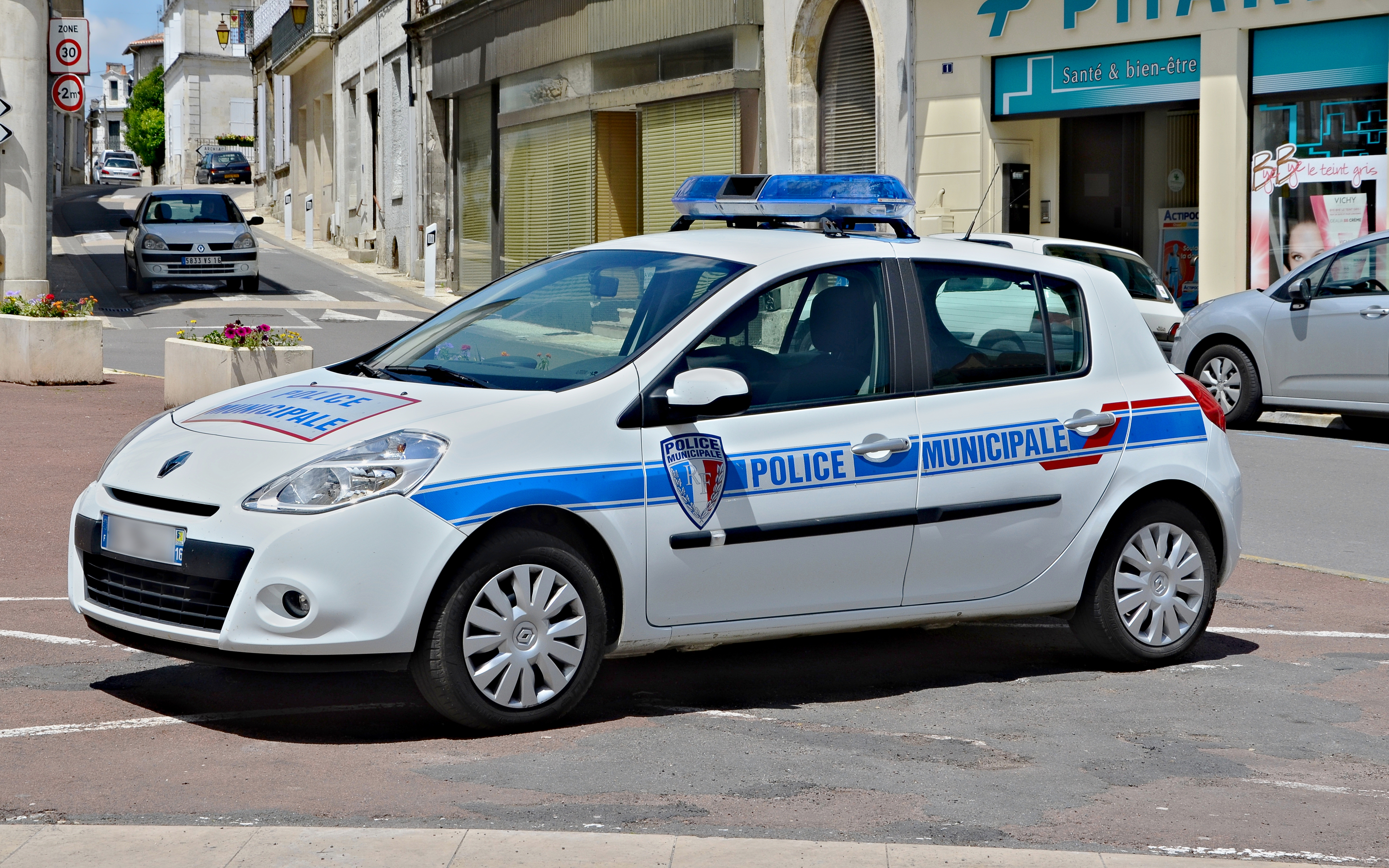 Municipal police car (Renault Clio), Châteauneuf-sur-Charente, Charente, France.